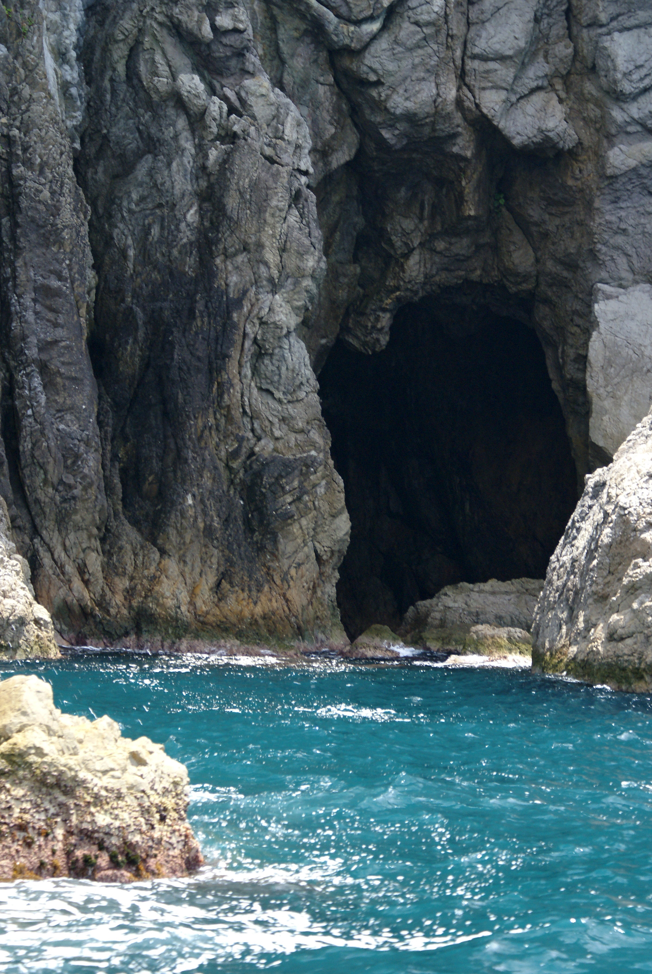 Ryugu-domon of Tajima mihonoura in Shinonsen, Hyogo prefecture, Japan